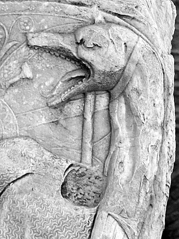 Reliefs of Trajan's Column.